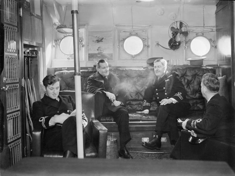 Hmcs Niagara, Town Class Destroyer, One of the Fifty Destroyers Handed Over by the United States of America in Exchange For the USE of the Bases. 1941, on Board the Destroyer, She Has An Entirely Canadian Crew, Some of Whom Are Experiencing Their First Taste of Naval Life. Amongst Them Are Lumberjacks, Farmers, Warehousemen, Etc, Who Until They Brought the Niagara Across the Atlantic Had Never Been To Sea. Types of Canadians Forming the Crew of Hmcs Niagara Some Wearing Their Unusual Headgear, Etc. In the Ward room, officers enjoy a quiet spell while awaiting orders to put to sea.